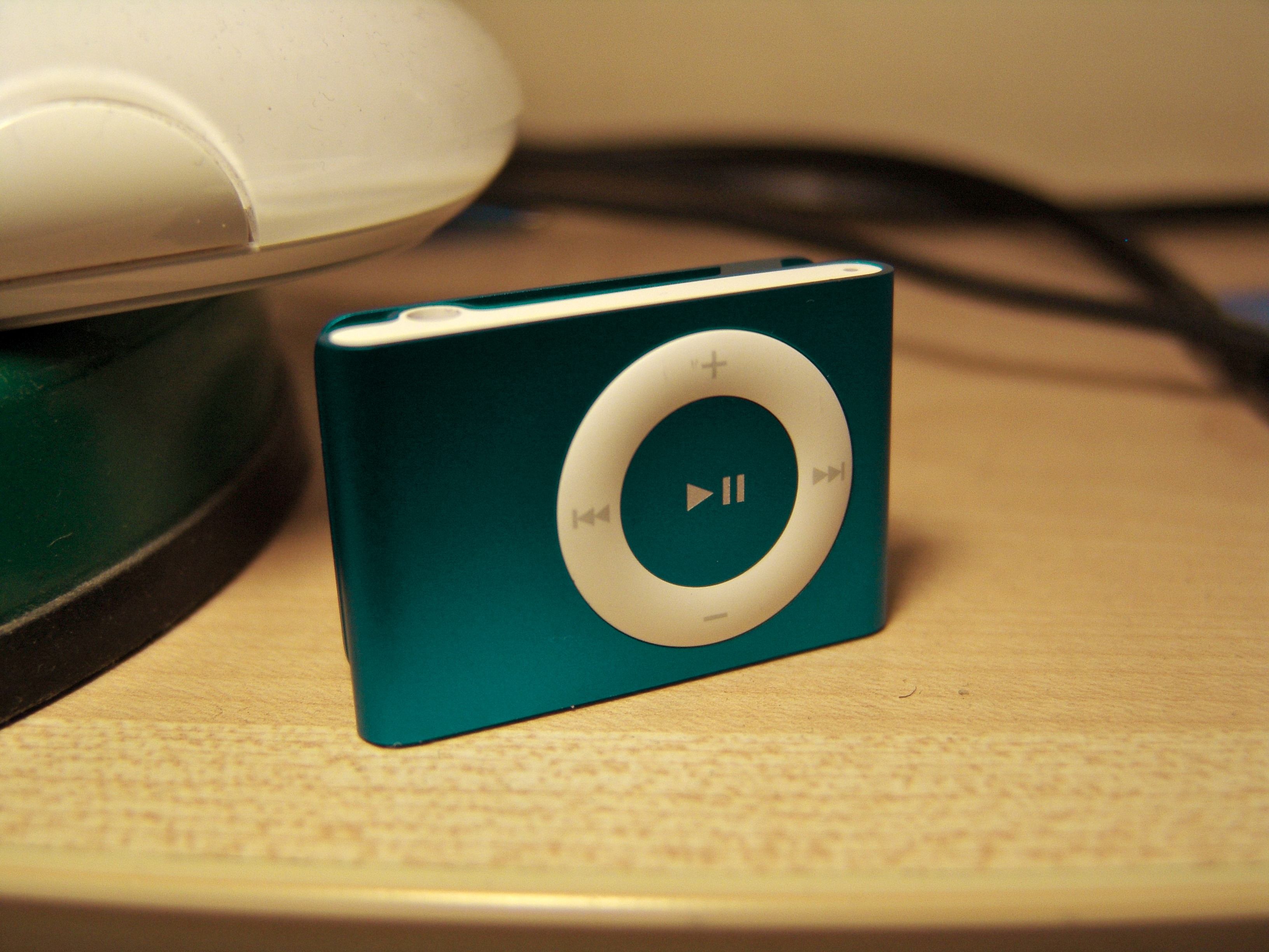 Second gen iPod shuffle This photo is licensed under a Creative Commons license. If you use this photo, please list the photo credit as "Daniel Morris" and link the credit to .